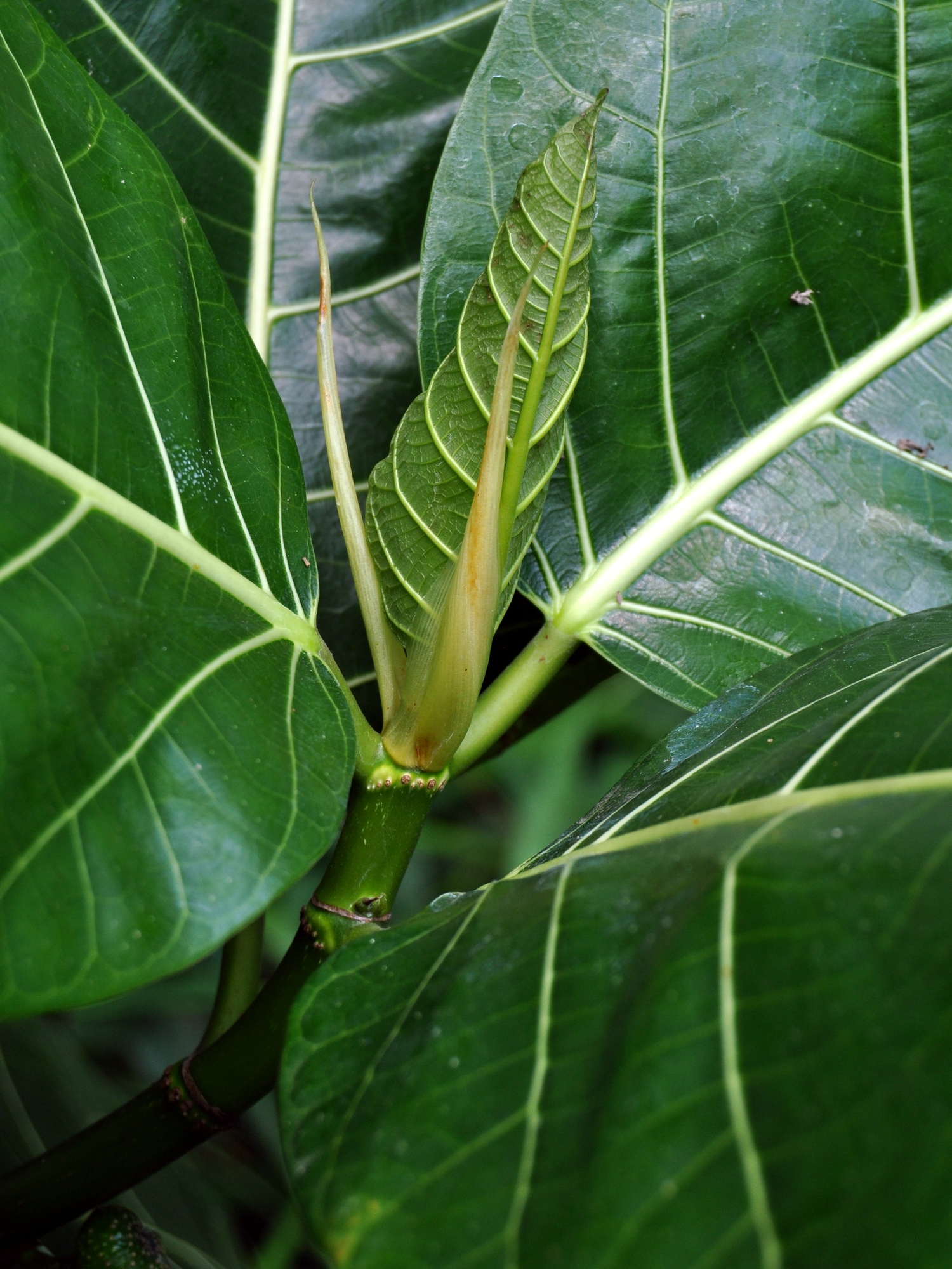 Ficus septica leaves and bud; showing a pair of long, conical stipulae. From Bogor, West Java, Indonesia.